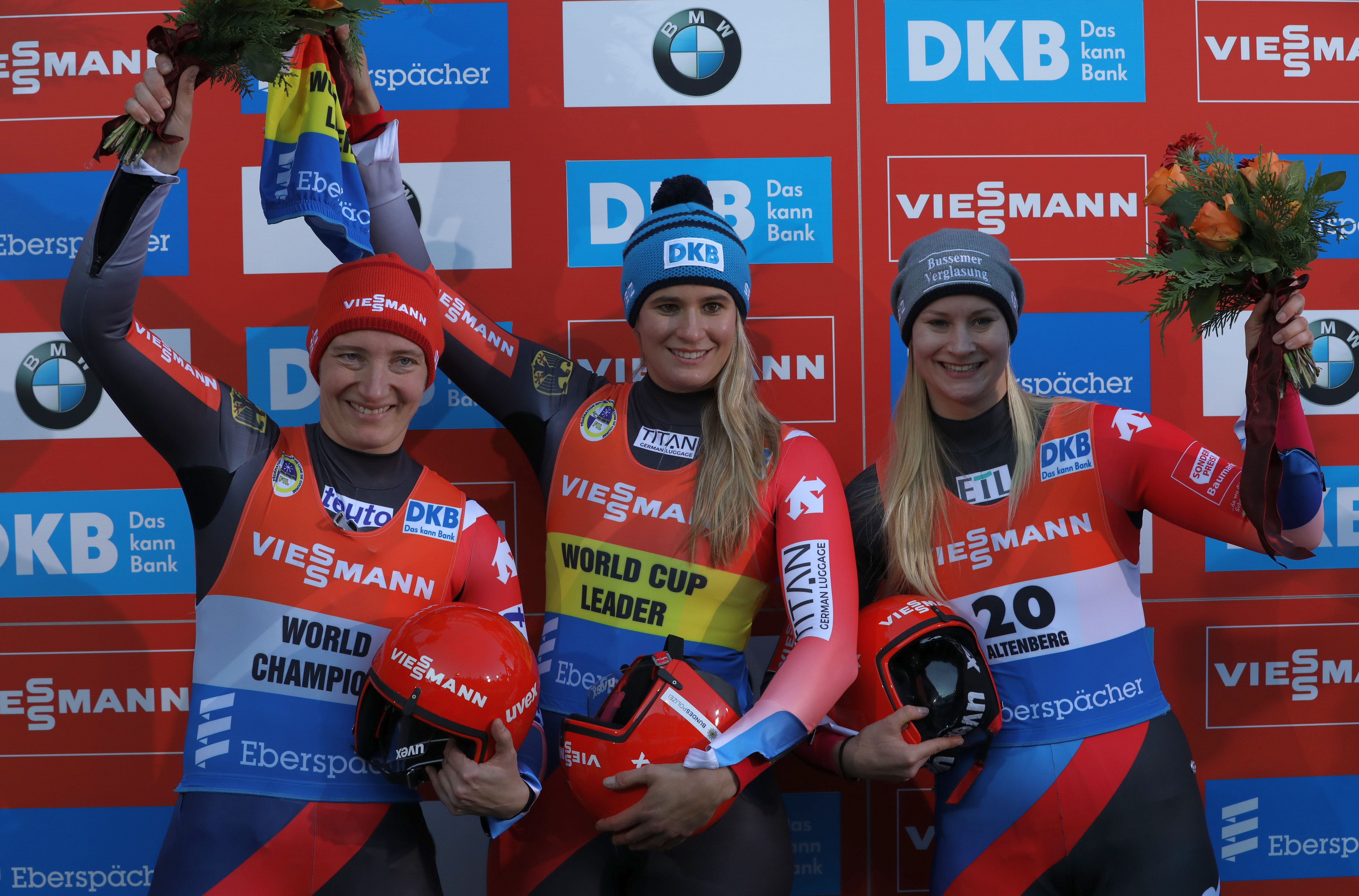 Luge World Cup Women 2017/18 in Altenberg: Tatjana Hüfner, Natalie Geisenberger, Dajana Eitberger